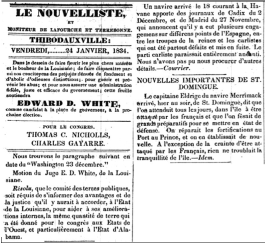 Article from the Thibodauxville (Thibodaux, LA) French-language newspaper.